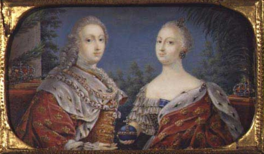 Frederick V and Louise of Great-Britain double portrait